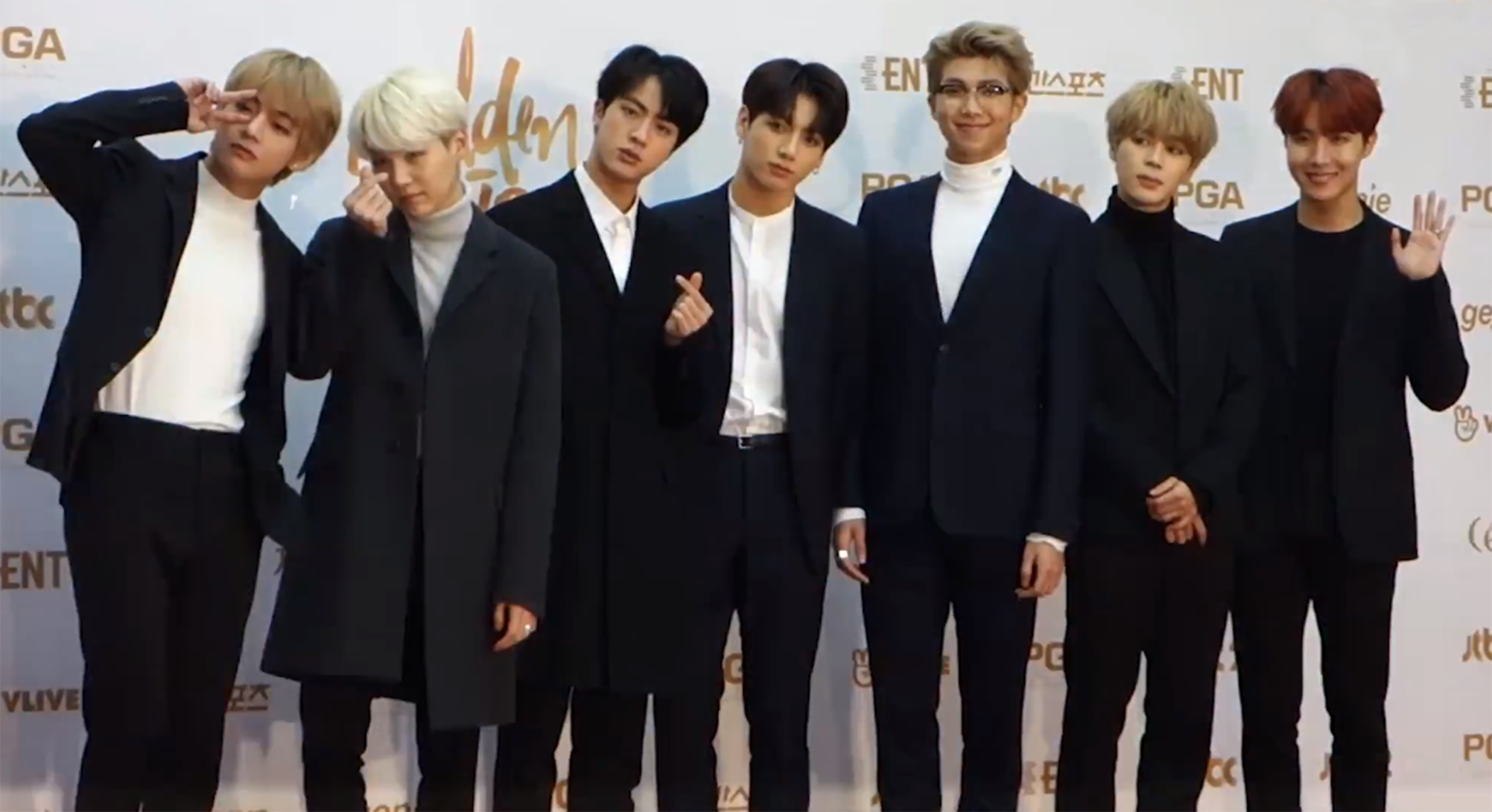 BTS at the 32nd Golden Disk Awards on 10 January 2018